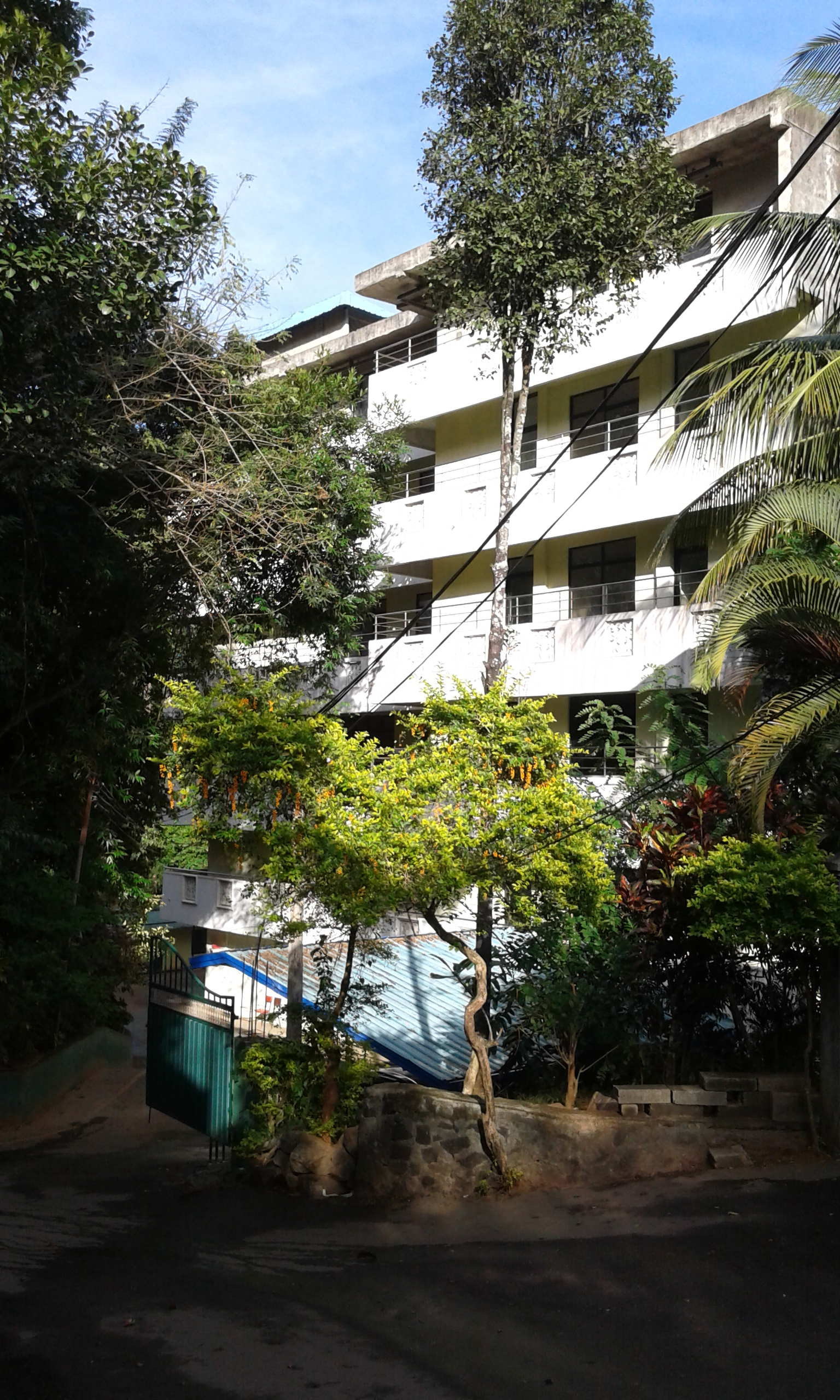 Main Building of Lexicon International School Kandy